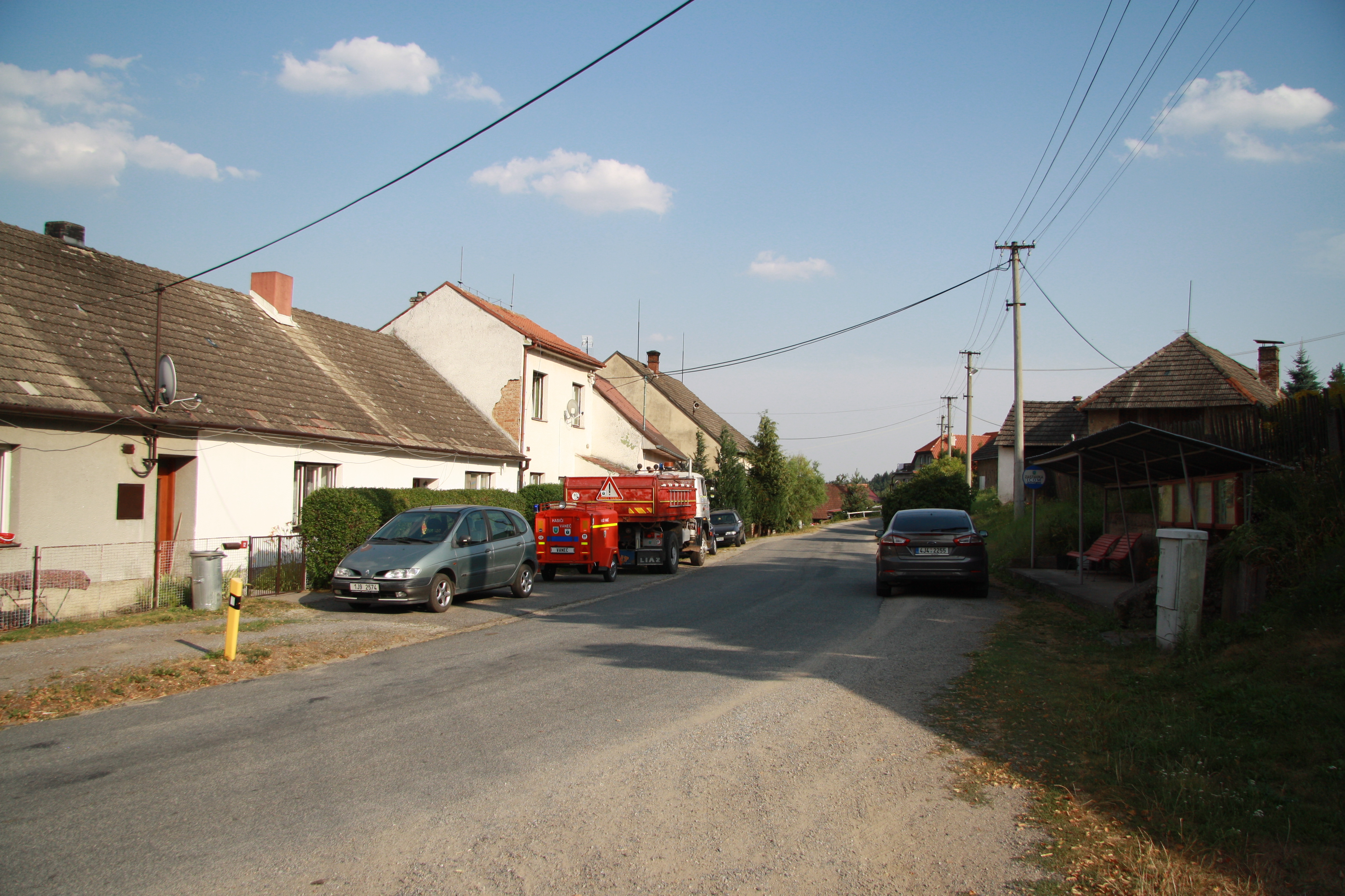 Center in Vaneč, Pyšel, Třebíč District.